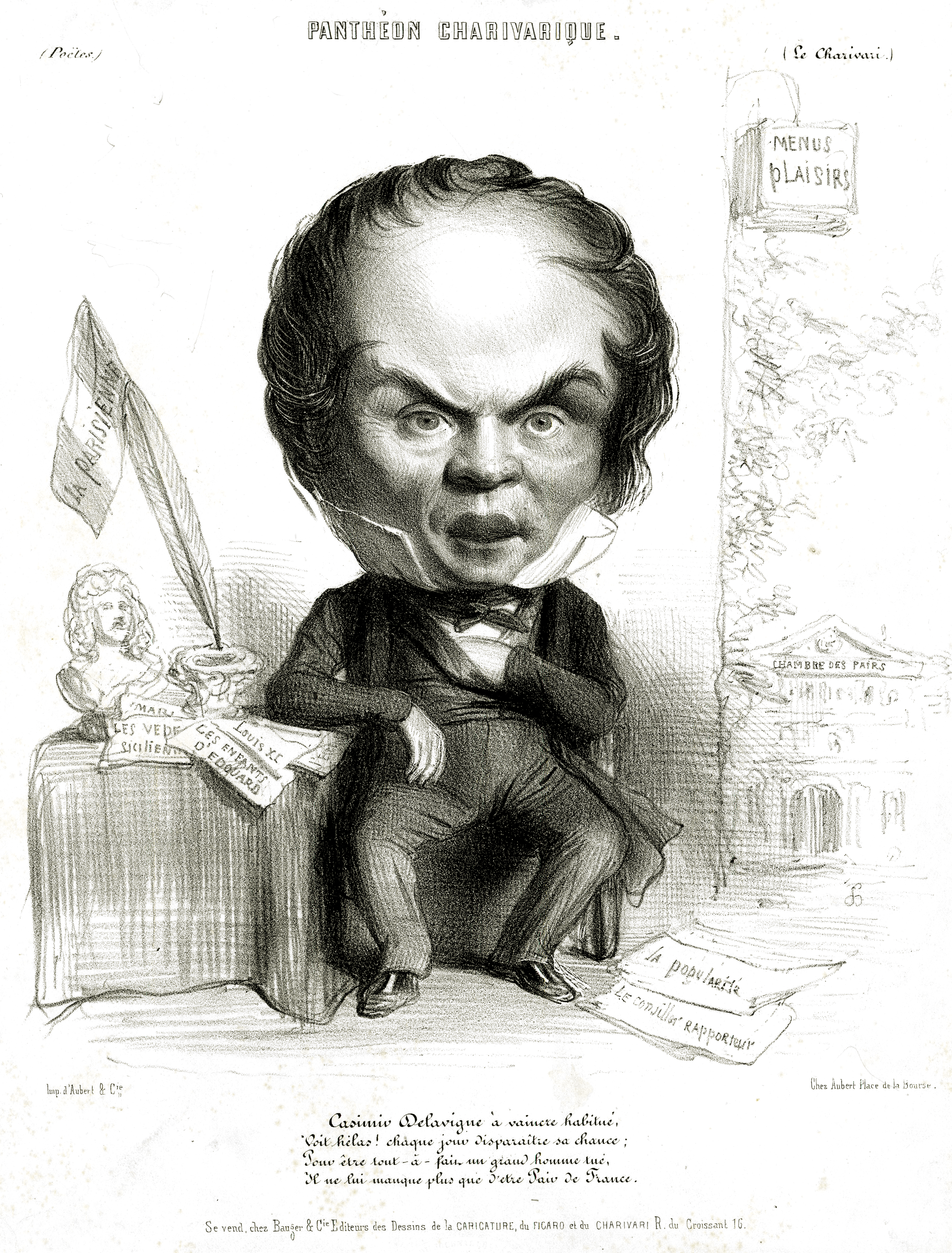 Caricature of French poet and dramatist Casimir Delavigne by Benjamin Roubaud.